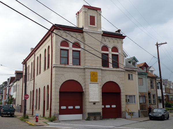 Picture of Troy Hill Fire Station #39, located at the corner of Ley and Froman Streets in the Troy Hill neighborhood of Pittsburgh, Pennsylvania, on August 14, 2010. It was built in 1901, designed by architect Joseph Stillburg, and is on the List of Pittsburgh History and Landmarks Foundation Historic Landmarks.